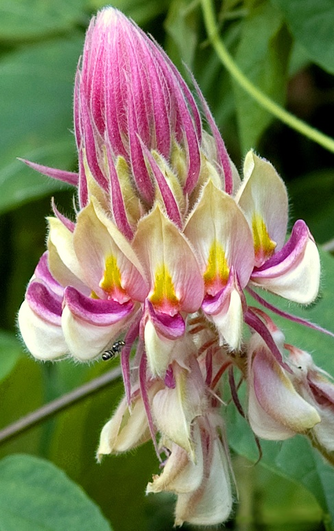 Silky Afgekia